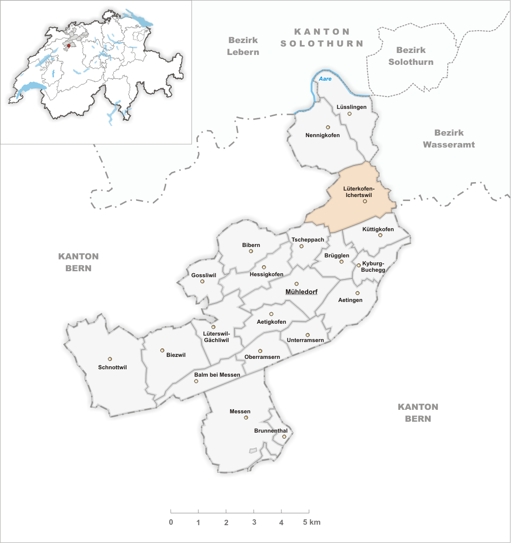 Municipality Lüterkofen-Ichertswil